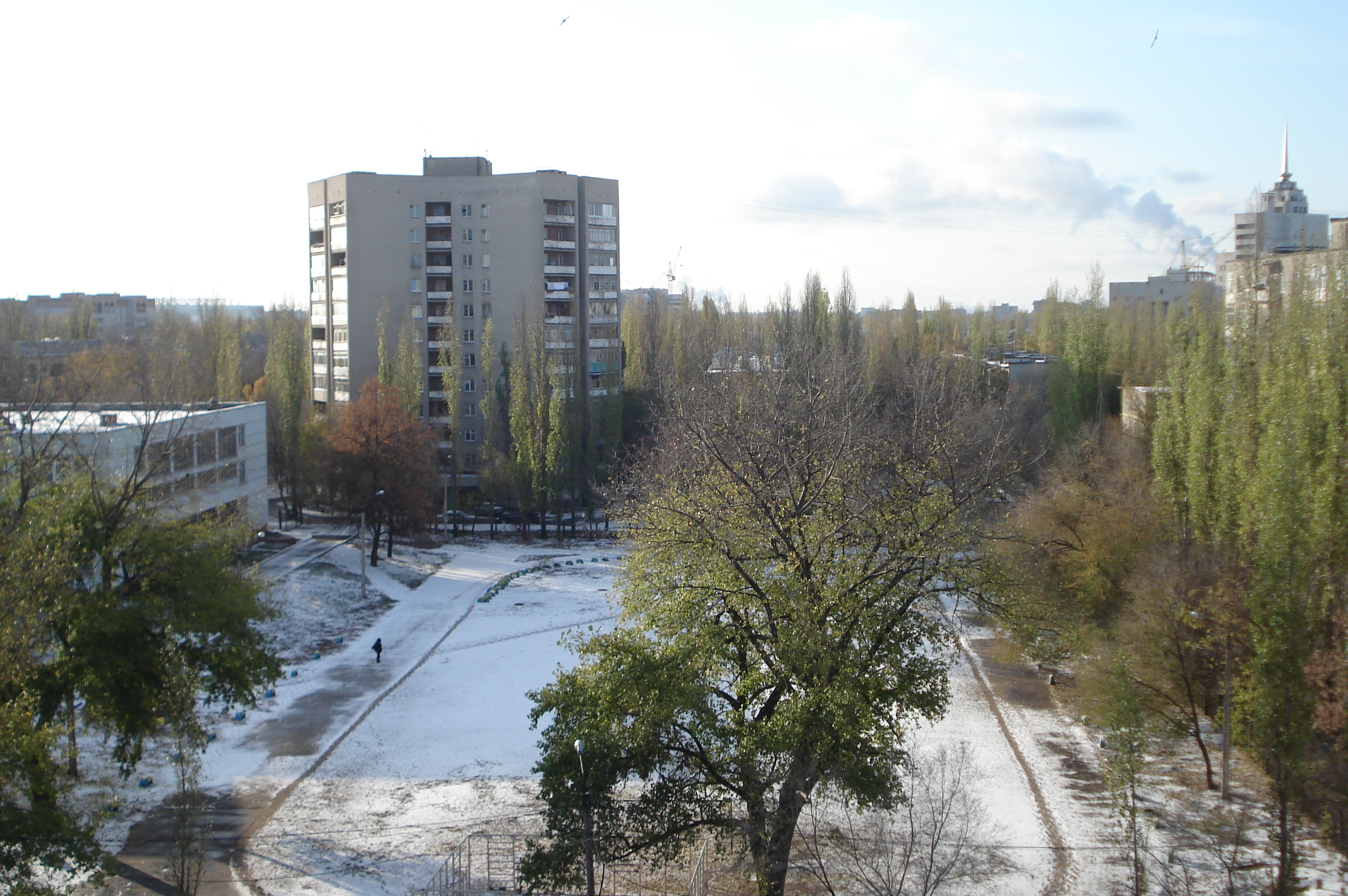 First snow in Voronezh (Russia)